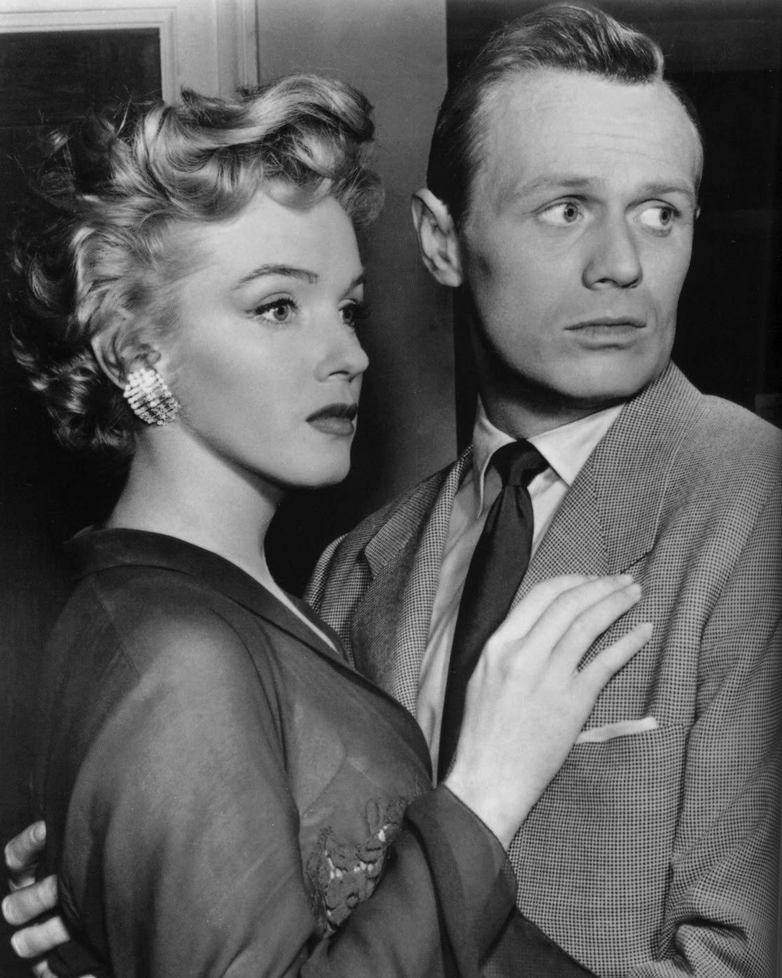 Marilyn Monroe and Richard Widmark in a promotional image for Don't Bother to Knock (1952)